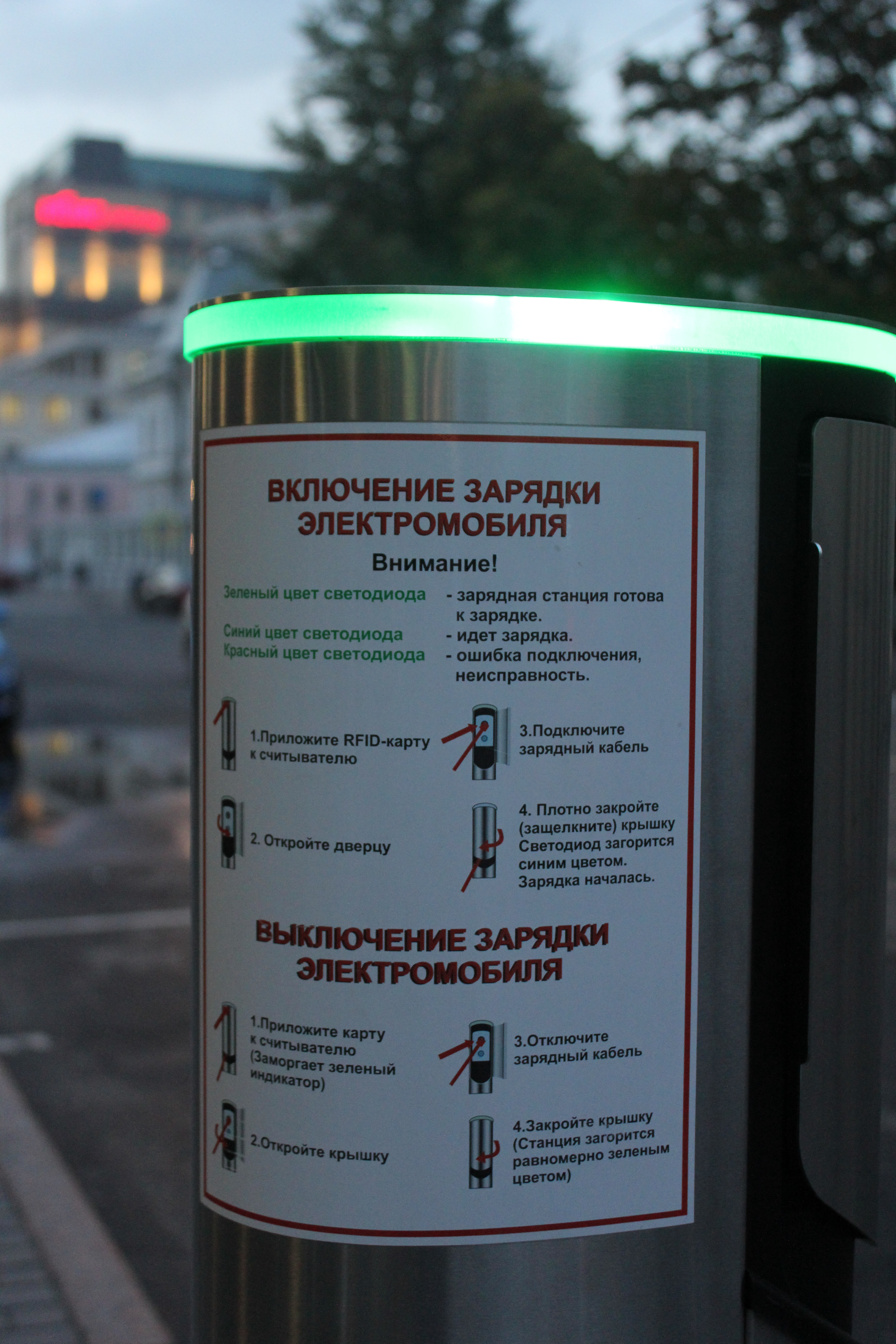 Electric vehicle charging station in Moscow